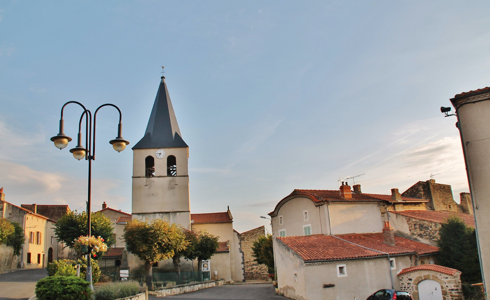 Le Village et son église